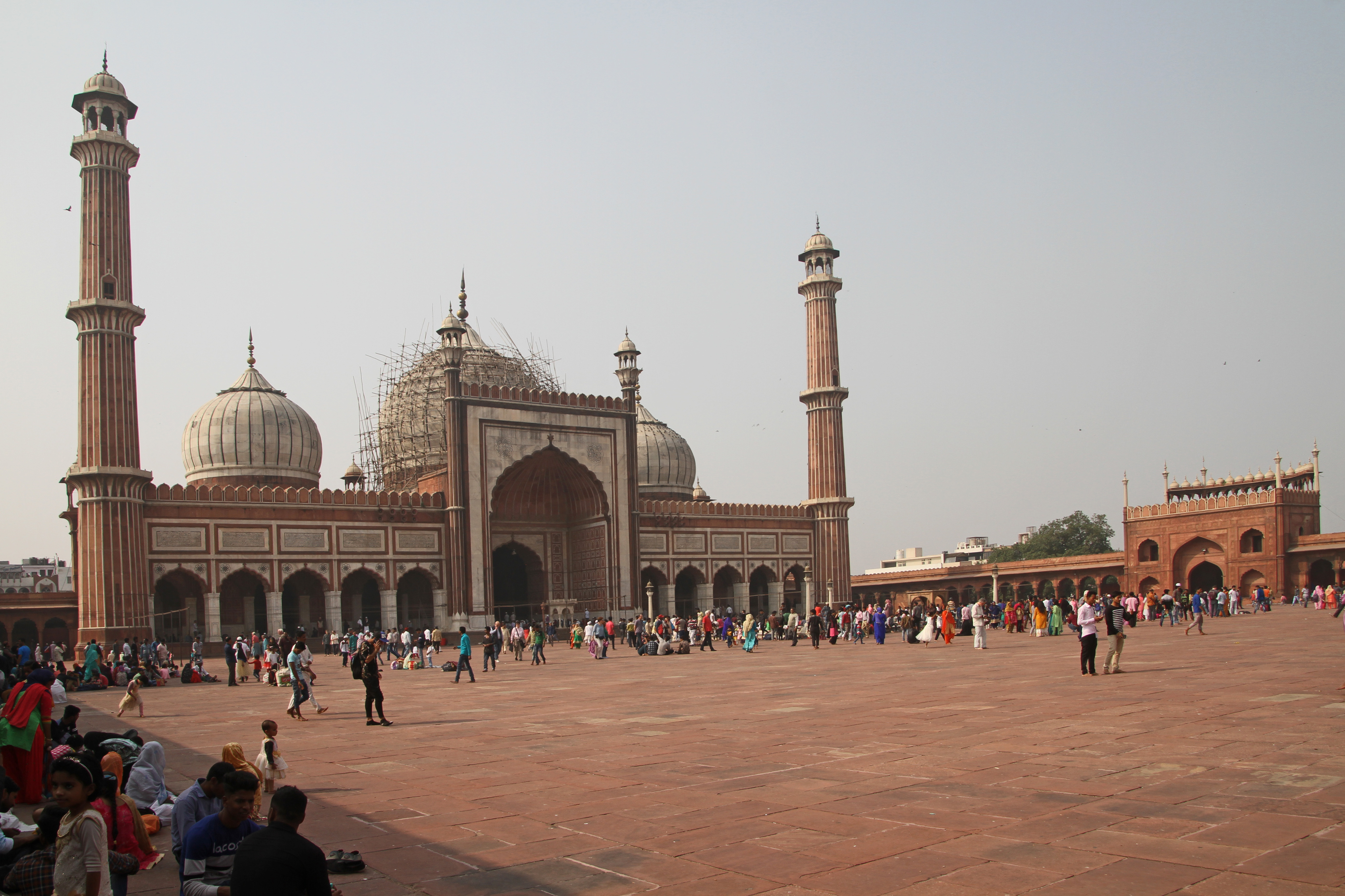 Jama Masjid, Delhi